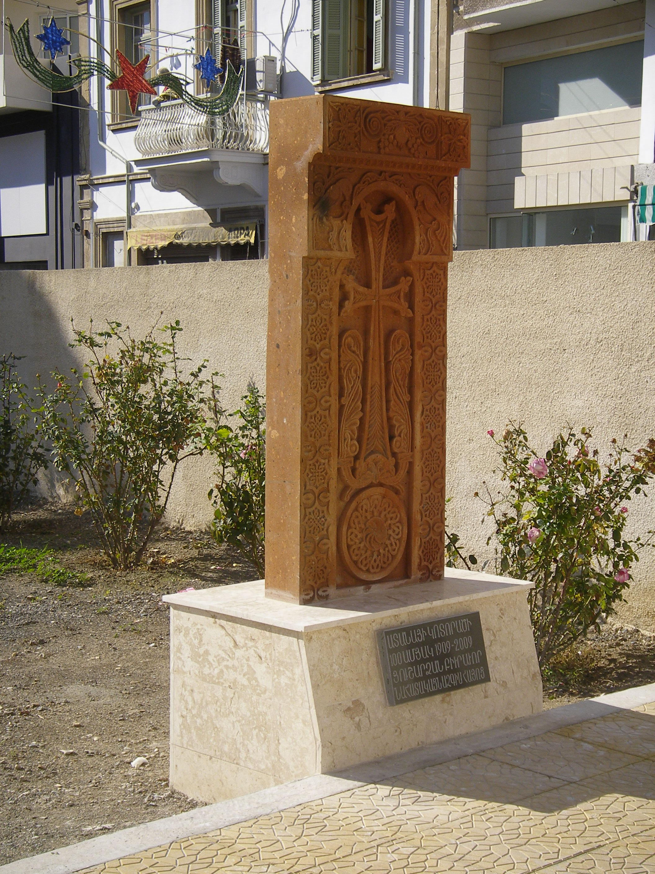 The khachkar in Larnaca, dedicated to the myriads of Armenian martyrs.